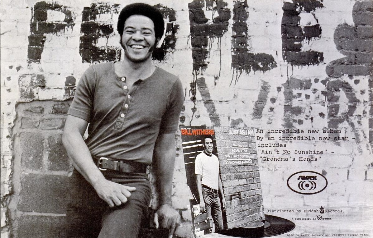 Bill Withers - Just As I Am, 1971